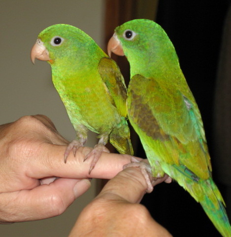 Orange-chinned Parakeet (Brotogeris jugularis). Two perching on fingers.